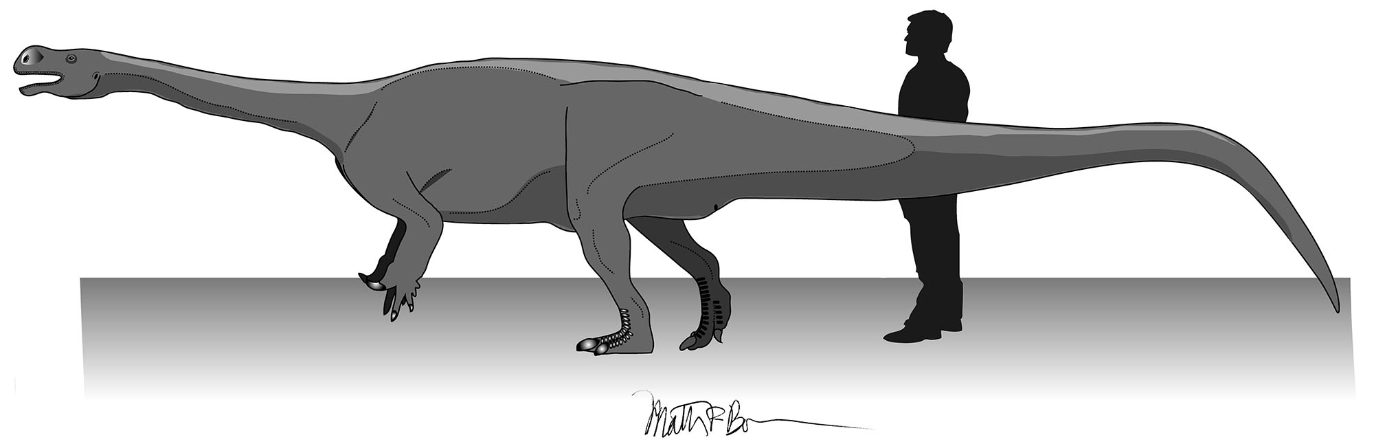 The sauropodomorph dinosaur Aardonyx celestae by Dr. Matthew Bonnan.